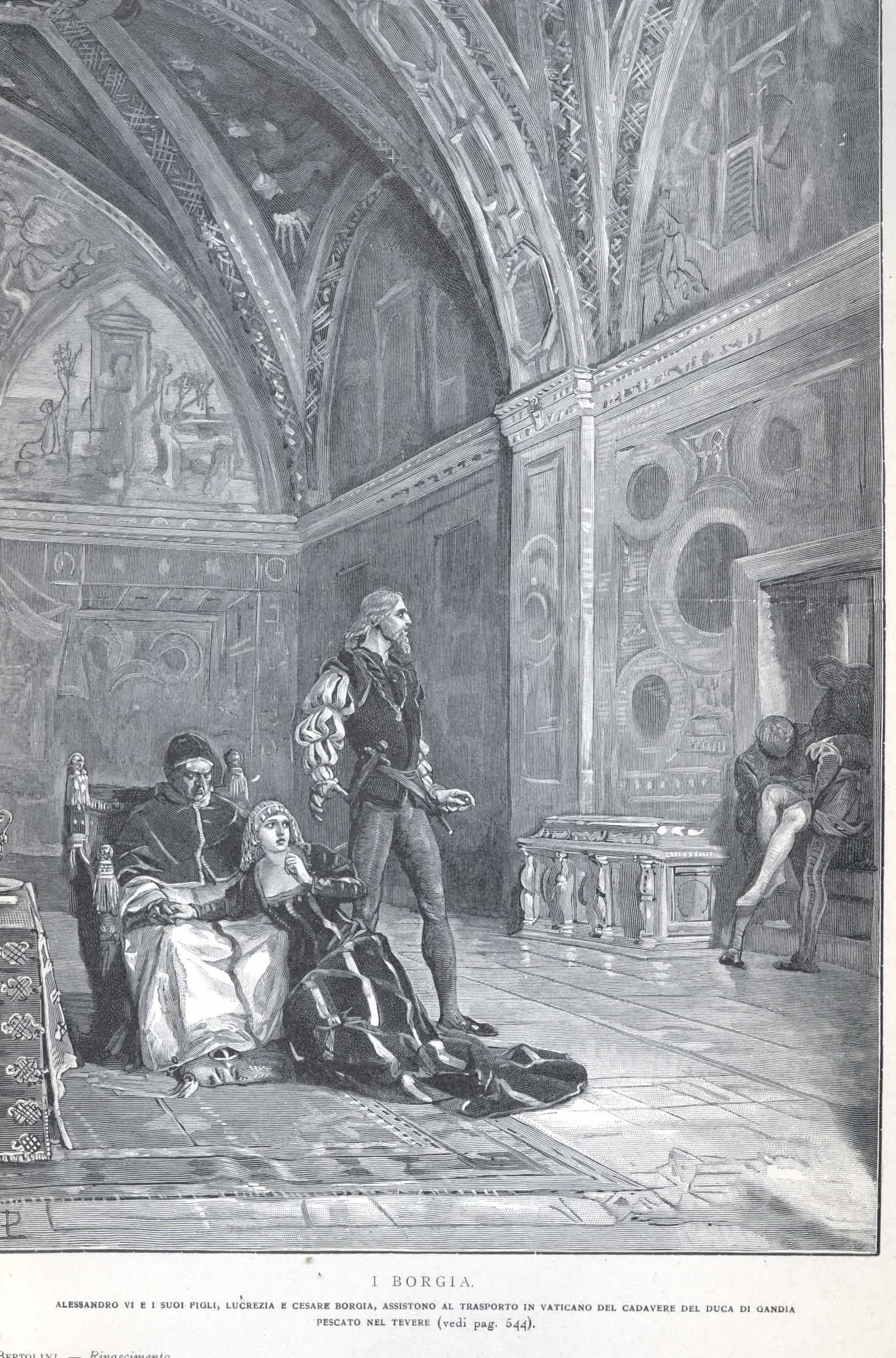 Juan Borgia's corpse is brought in as Rodrigo, Lucrezia and Cesare Borgia watch.